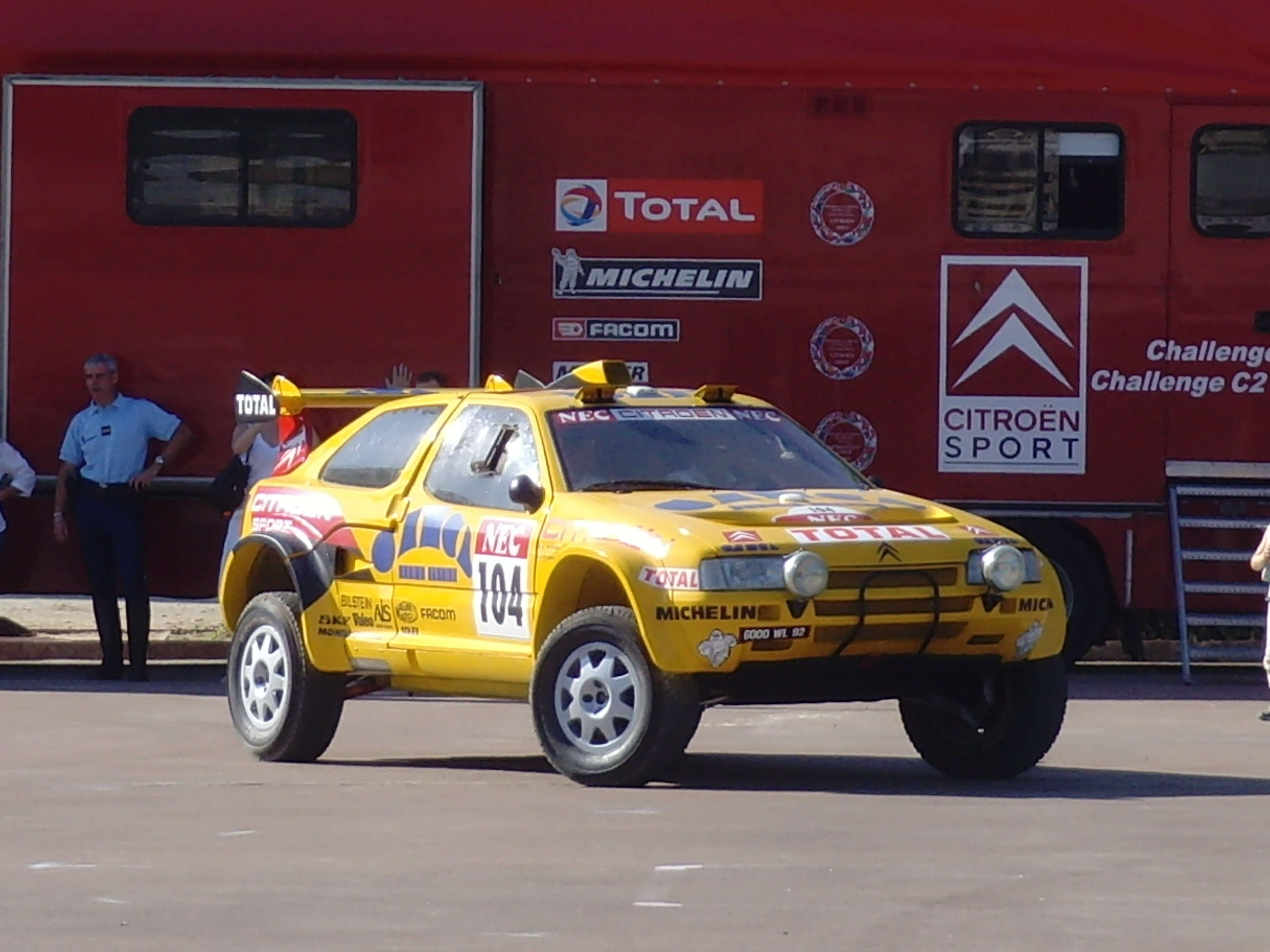 The Citroën ZX Rallye Raid, winner of the 1991 Paris-Dakar Rally.